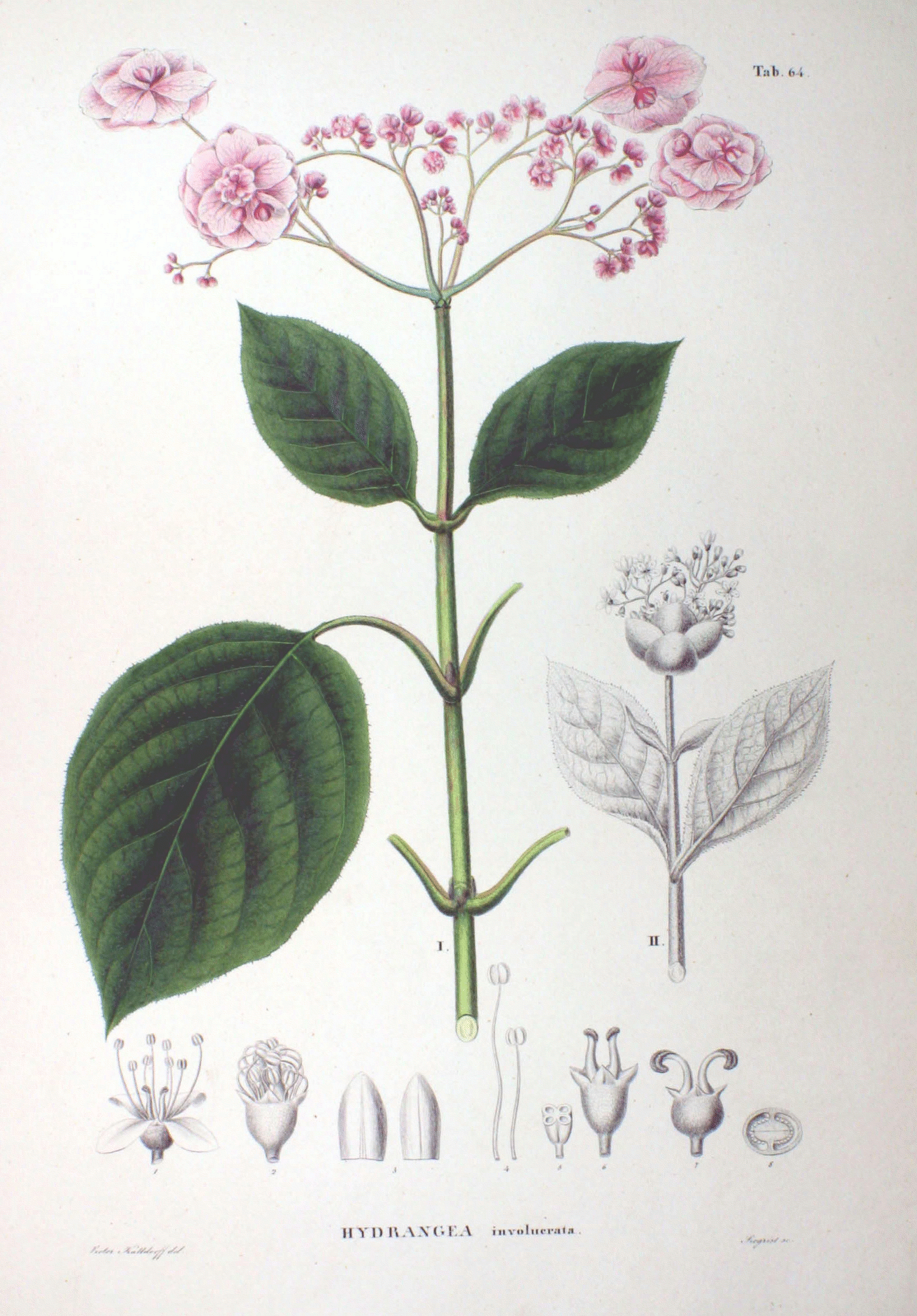 Hydrangea involucrata Plate from book